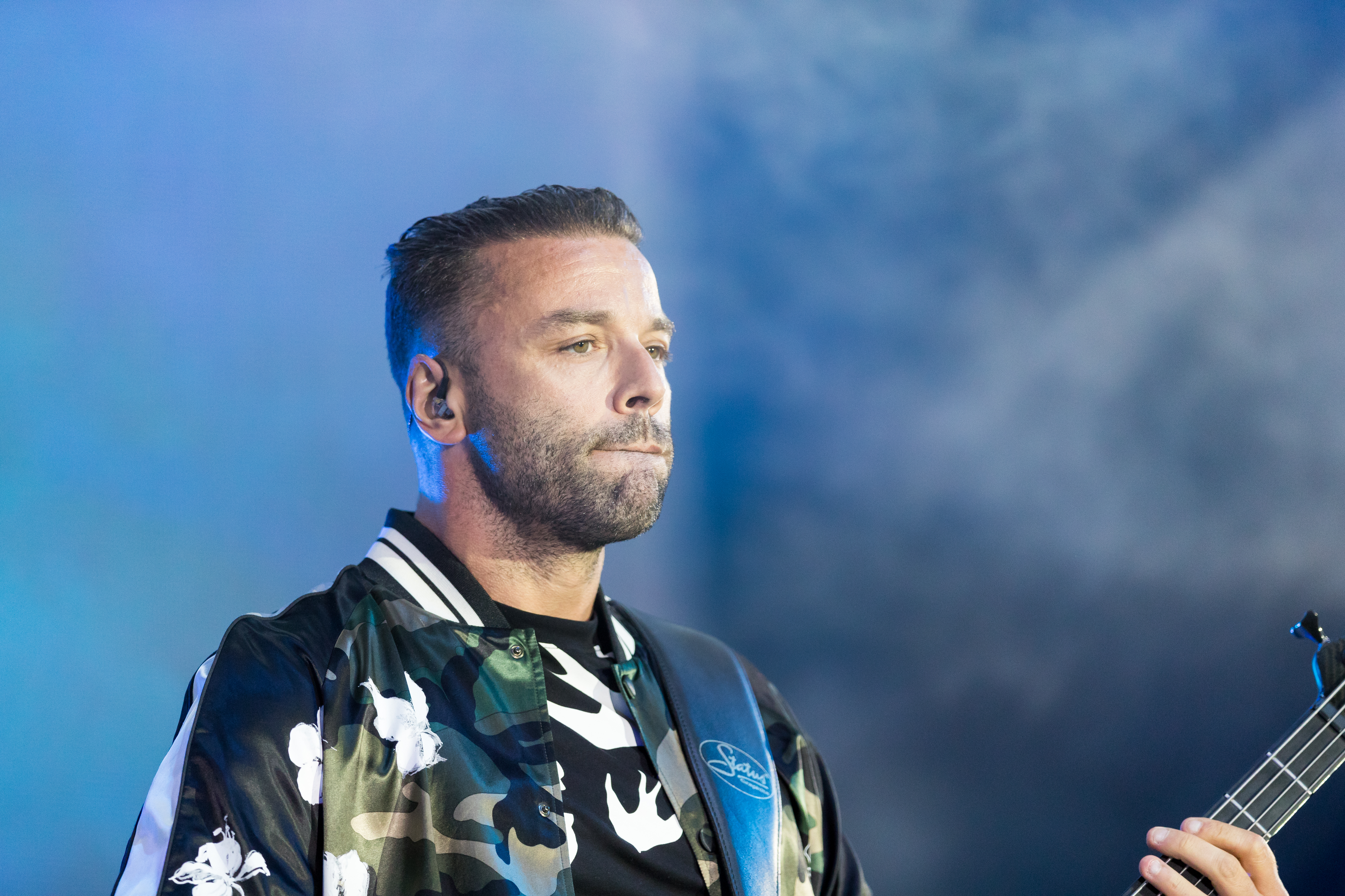 Muse @ Rock am Ring 2018